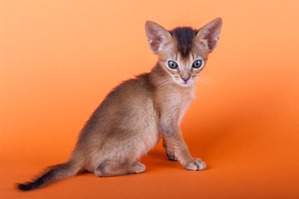 Abyssinian Cat